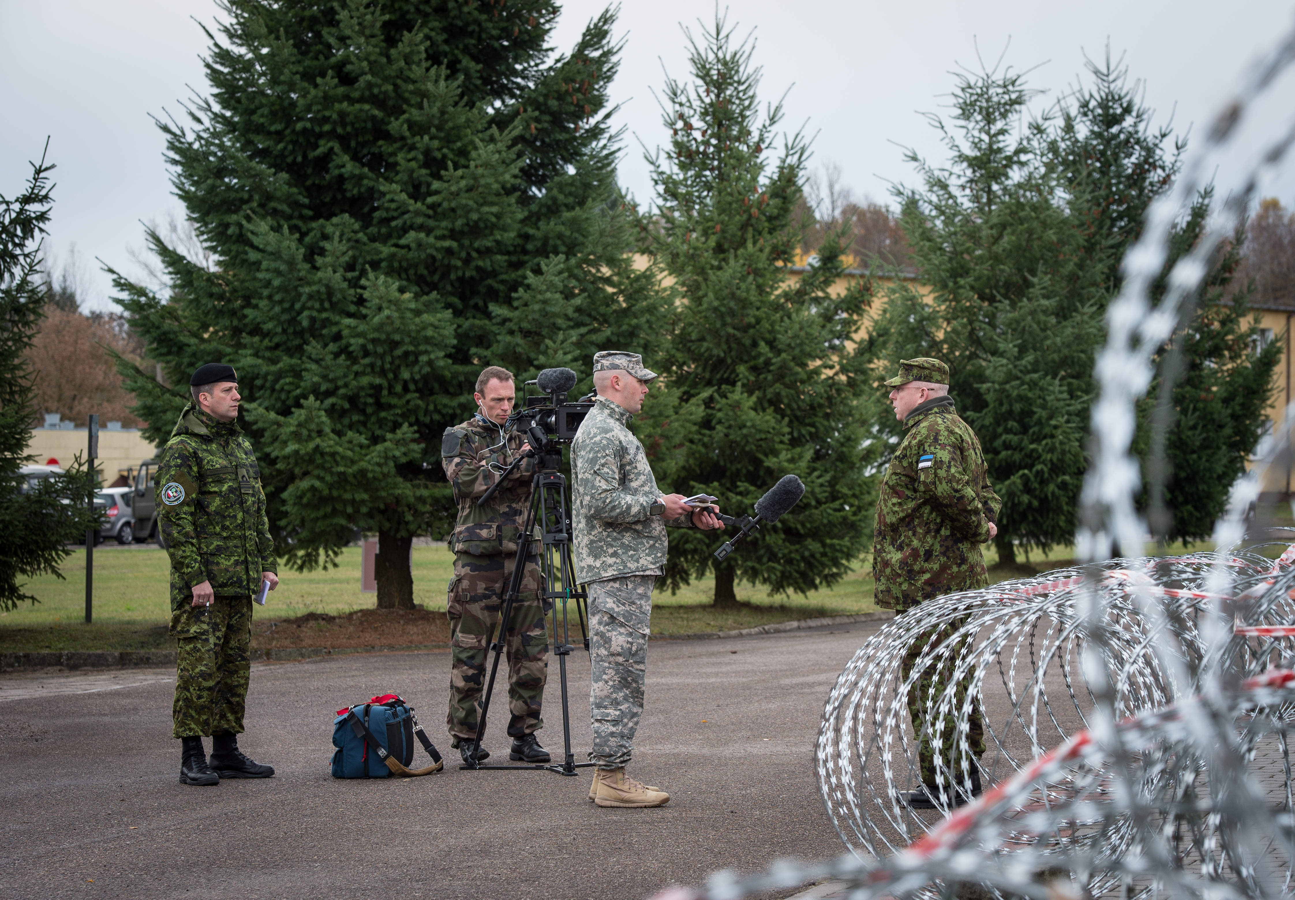 Brigidier General Indrek Sirel Estonian Defence Force, Director Joint LIVEX Coordination Element, being interviewed by the SHAPE Imagery Section at the Drawsko Pomorskie Training Area, Poland, on Nov. 4, 2013. Exercise Steadfast Jazz 2013 is taking place from 1-9 November in a number of Alliance nations including the Baltic States and Poland. The purpose of the exercise is to train and test the NATO Response Force, a highly ready and technologically advanced multinational force made up of land, air, maritime and special forces components that the Alliance can deploy quickly wherever needed. The Steadfast series of exercises are part of NATO’s efforts to maintain connected and interoperable forces at a high-level of readiness. (NATO photo/SSgt Ian Houlding GBR Army)